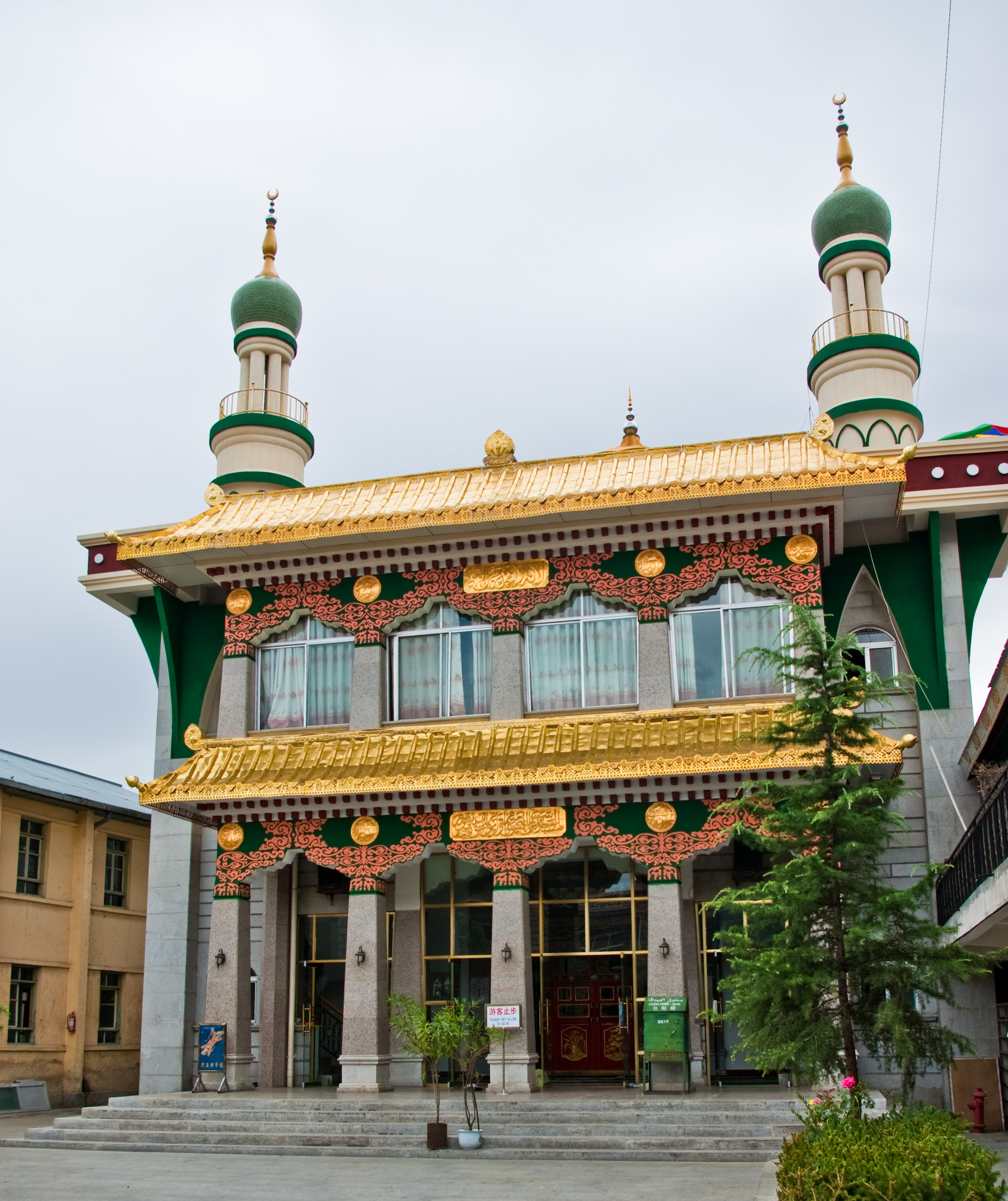 Lasha Great Mosque